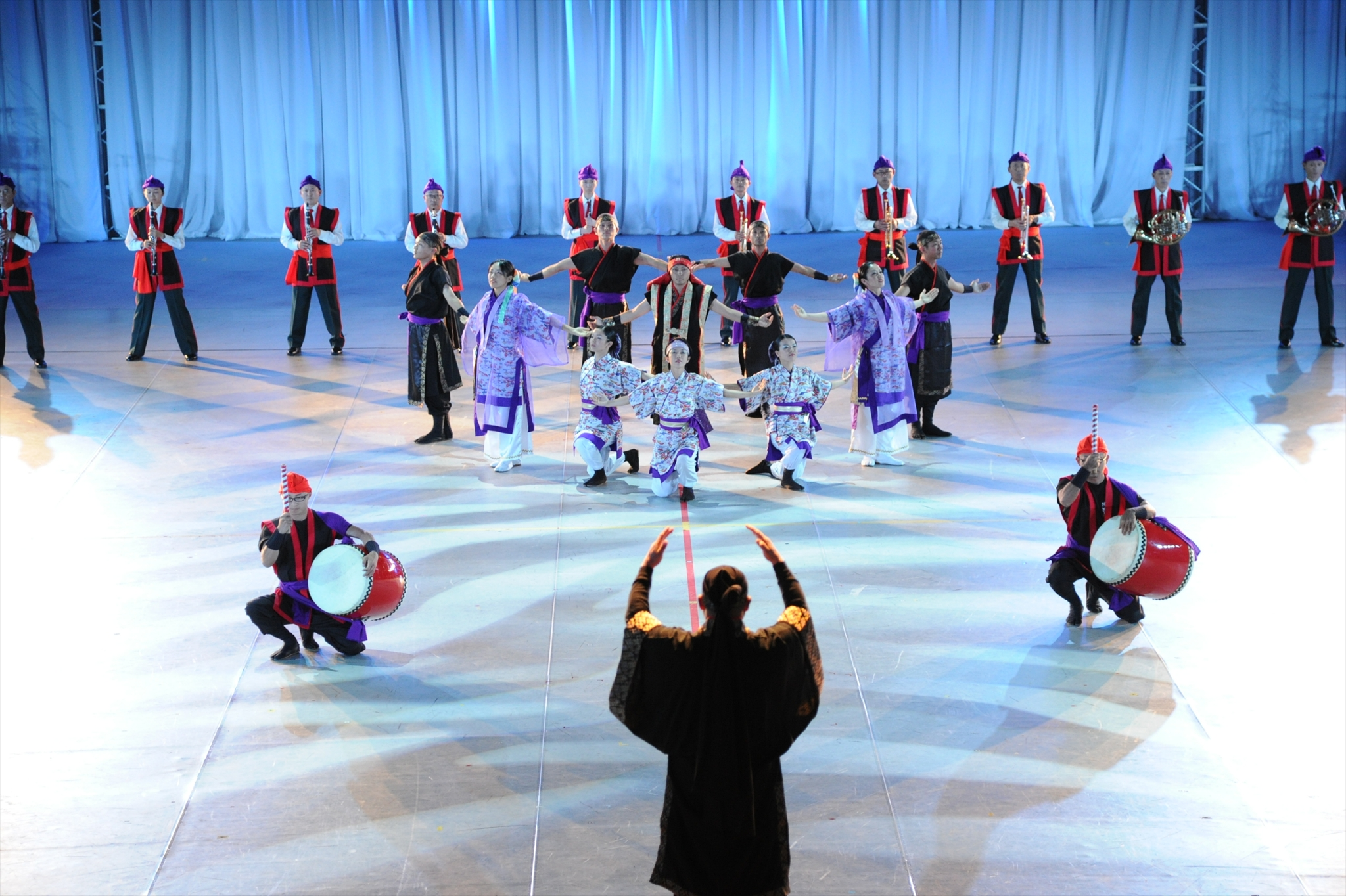 Title 09_021_R.JPG Album 自衛隊音楽まつり 平成２４年度自衛隊音楽まつり 第三章「軌跡」 第１５音楽隊／第１５旅団エイサー隊演奏